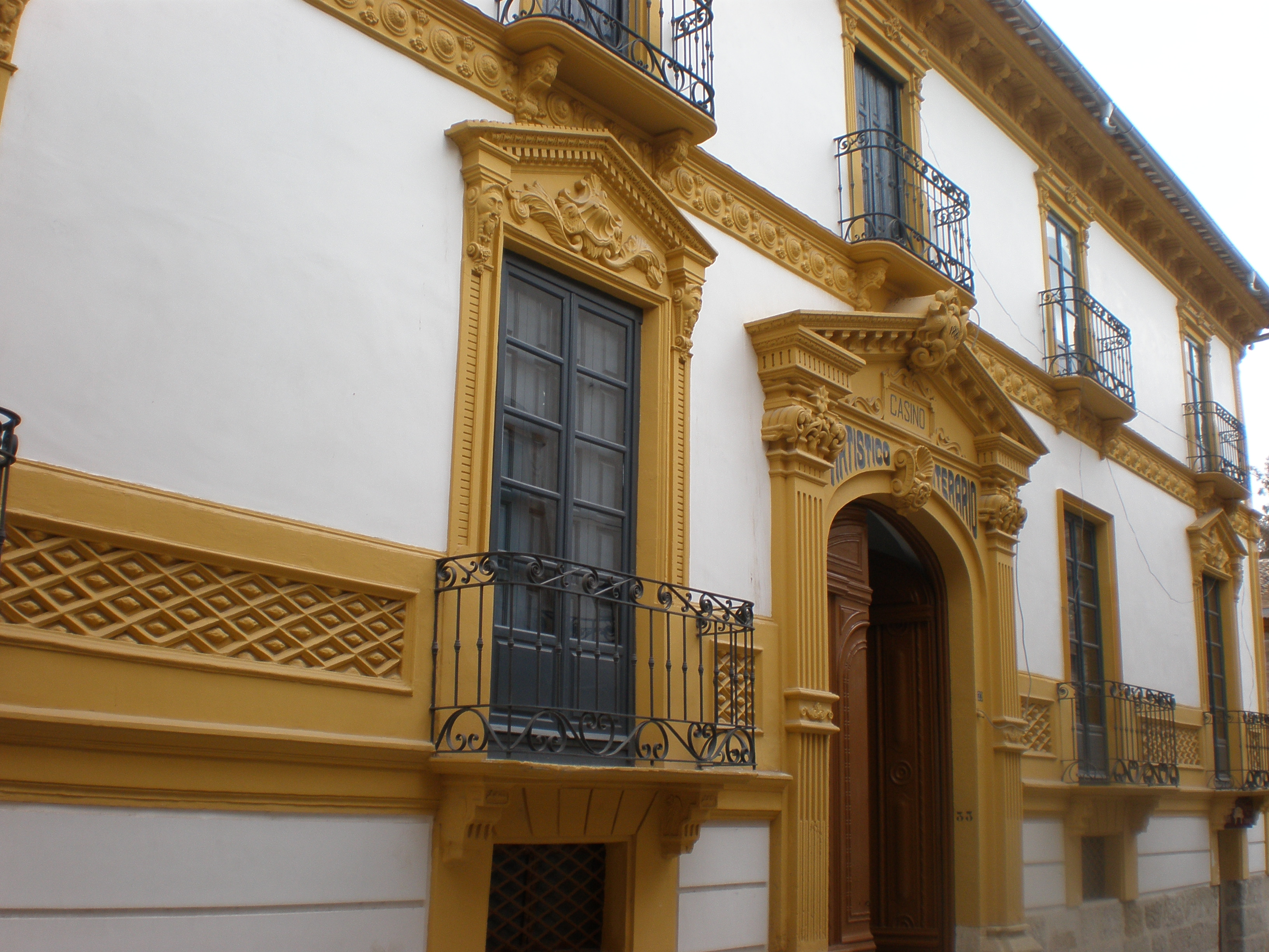 Lorca's Casino